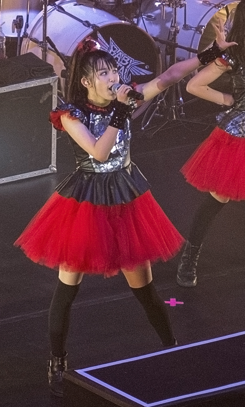 Suzuka Nakamoto as SU-METAL perfoming with BABYMETAL live in London, November 2014.